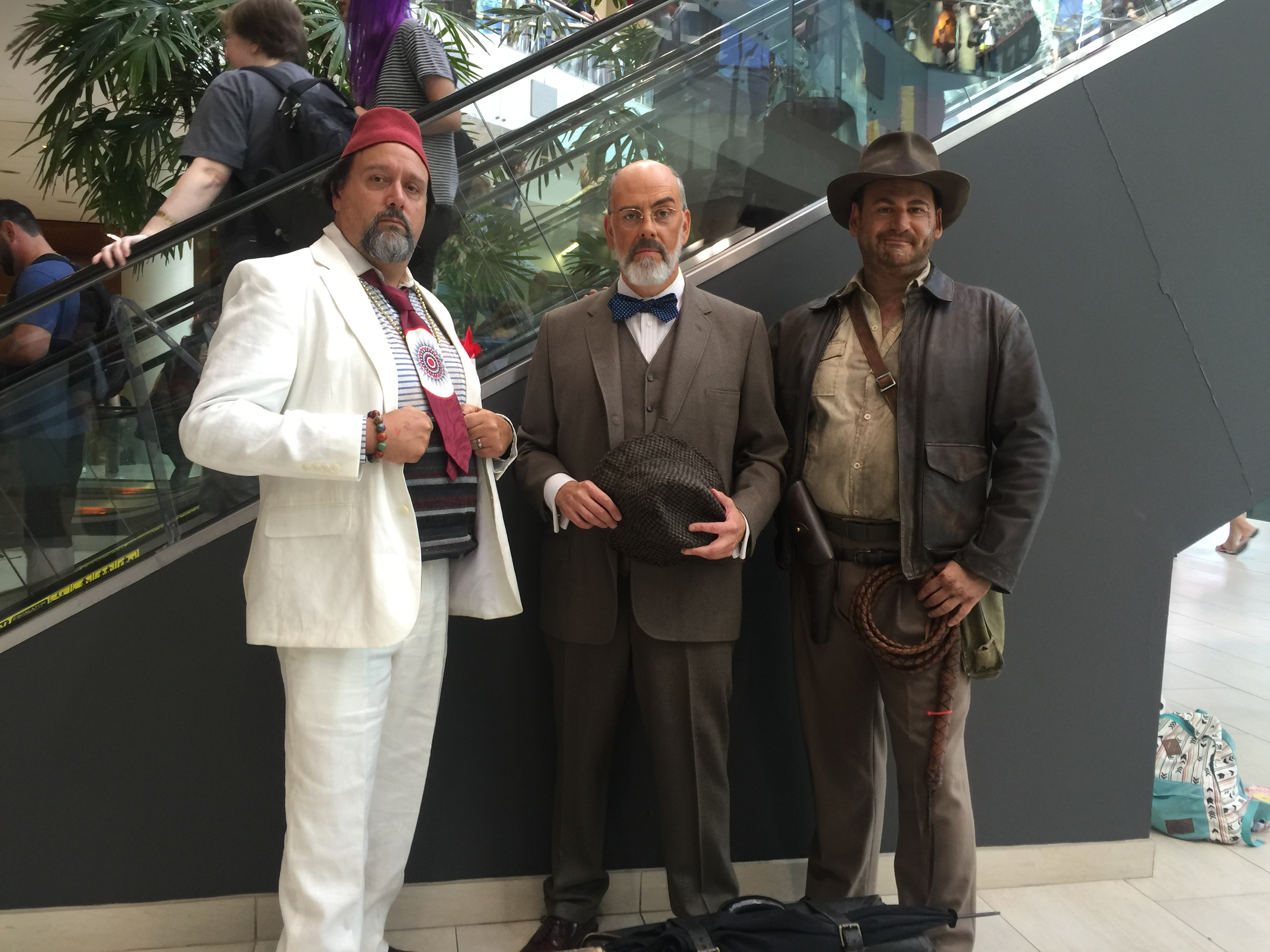 Cosplay at 2016 Fan Expo Canada.